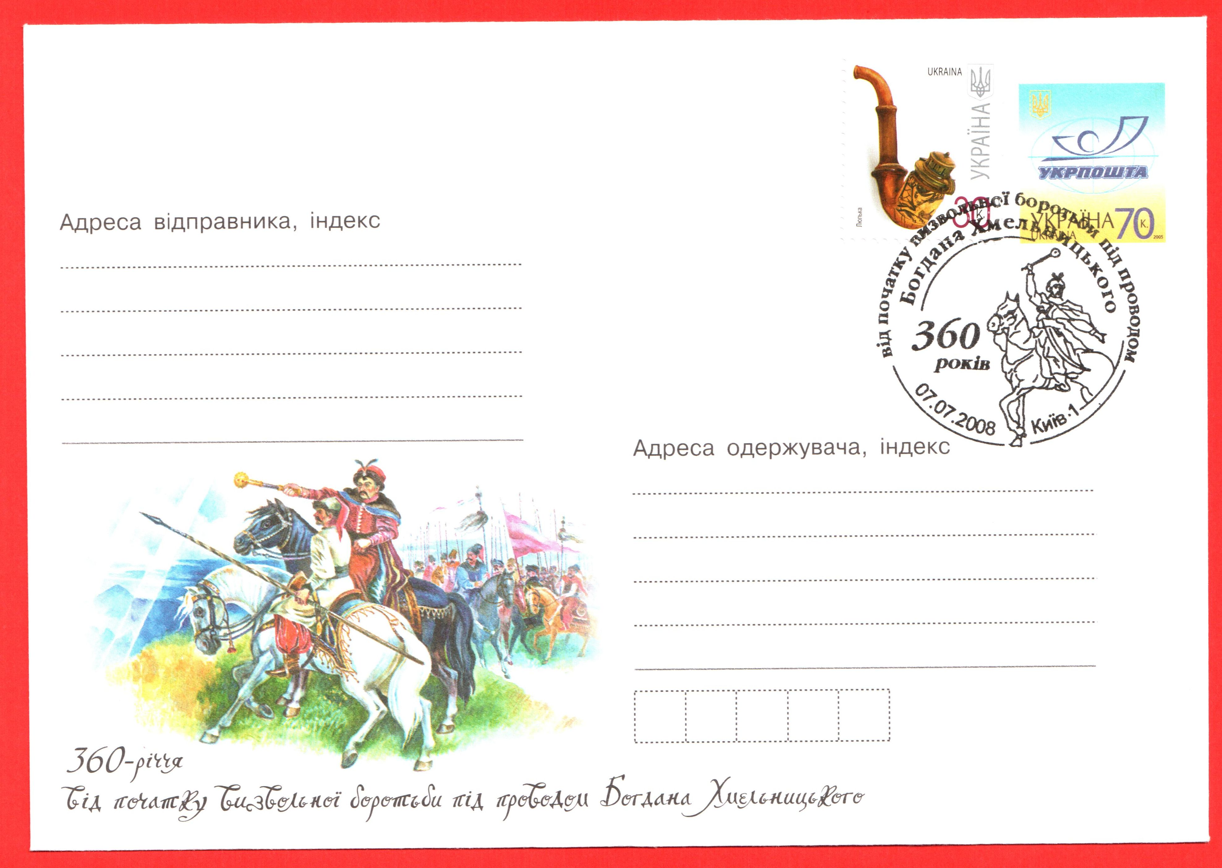 Postal stationery (cover) of Ukraine, Bohdan Khmelnytsky, with a pictorial cancellation, a pre-printed (original) stamp, and a definitive stamp, 2008.